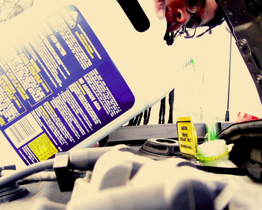 ready use...day 21